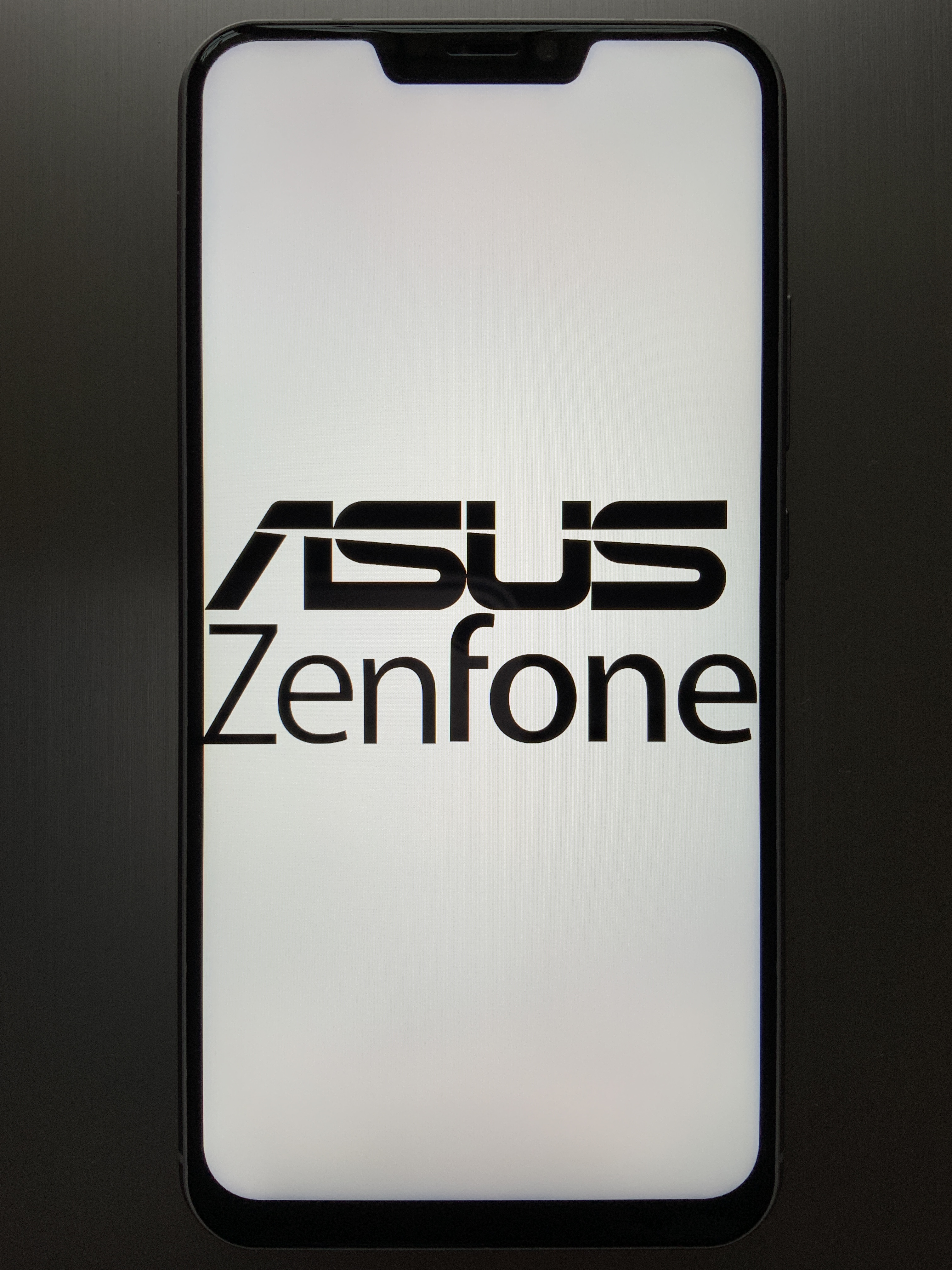 ASUS ZenFone 5 (ZE620KL) face